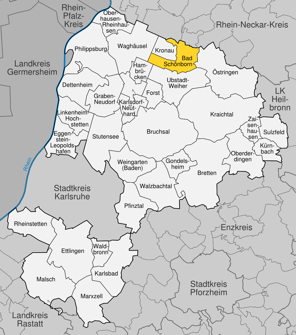 position of Bad Schönborn within distict of Karlsruhe, Baden-Württemberg, Germany